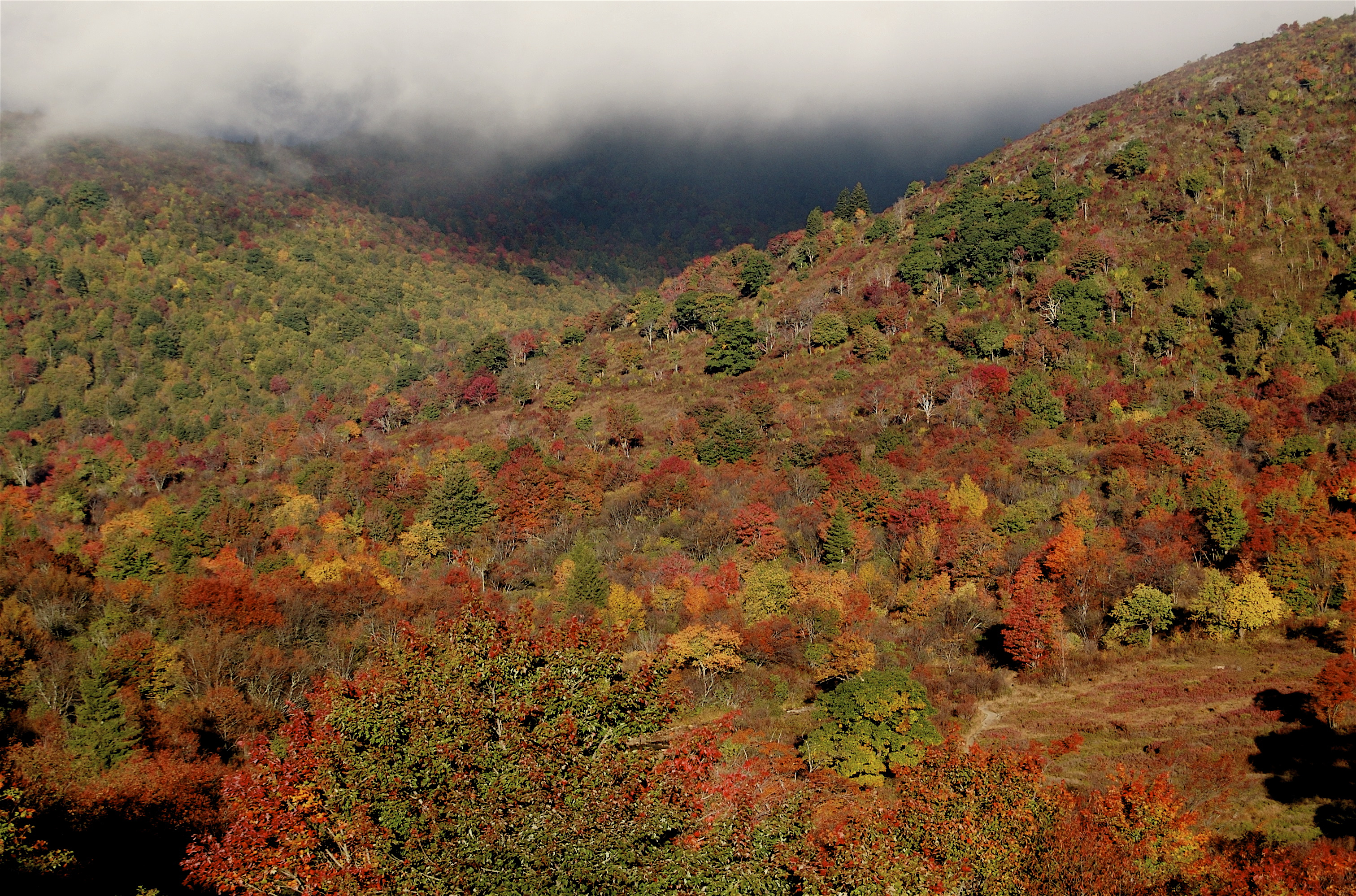 Graveyard Fields from Blue Ridge Parkway.